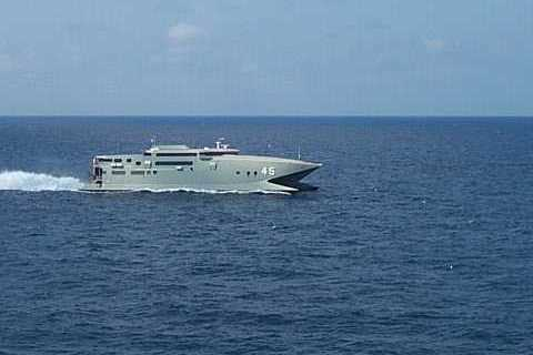 The Royal Australian Navy catamaran HMAS Jervis Bay in 2000